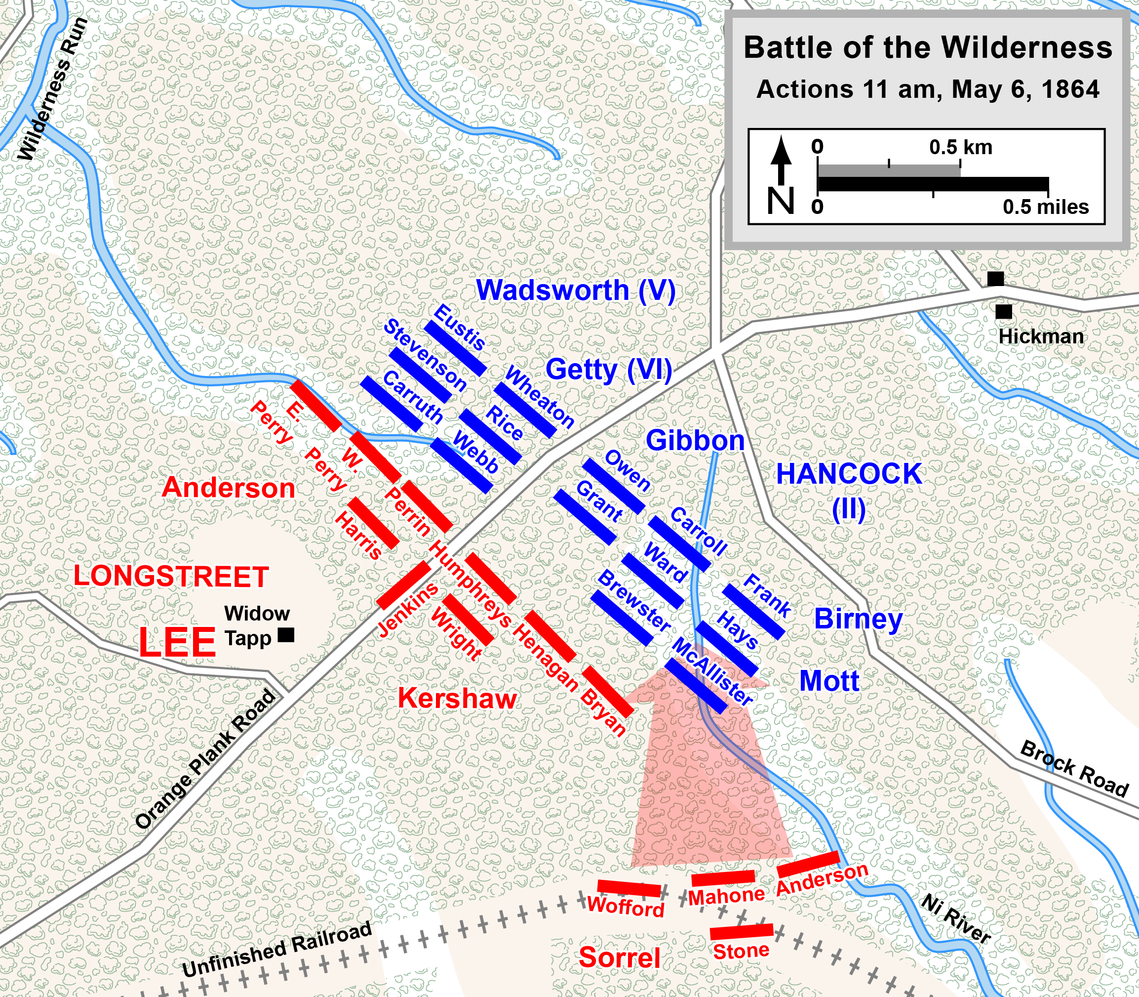 Map of a portion of the Battle of the Wilderness of the American Civil War. Drawn in Adobe Illustrator CC 2015 by Hal Jespersen. Graphic source file is available at Attribution: Map by Hal Jespersen